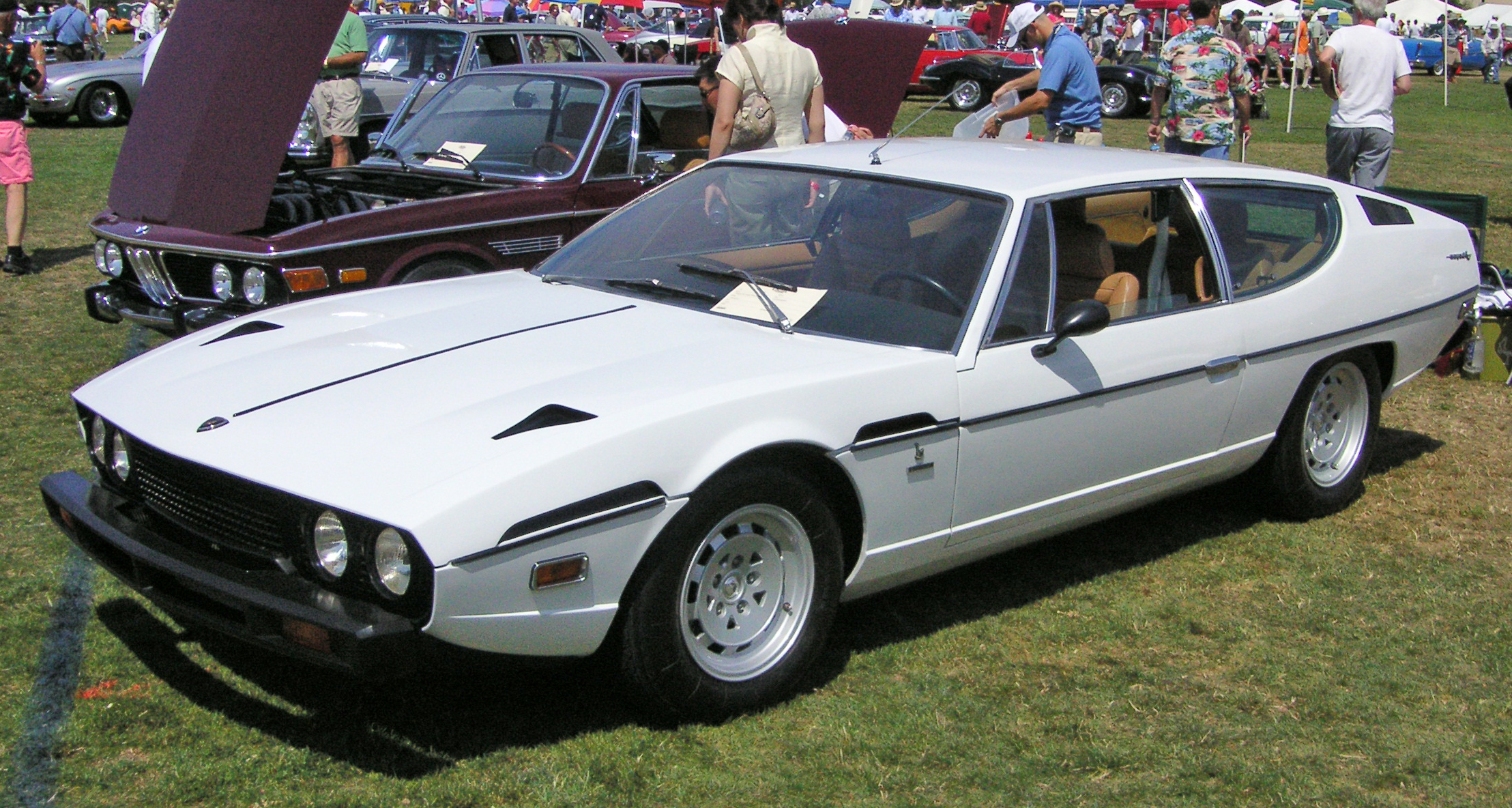 A white Lamborghini Espada S3 Taken at the 29th annual Palo Alto Concours d'Elegance at Stanford.